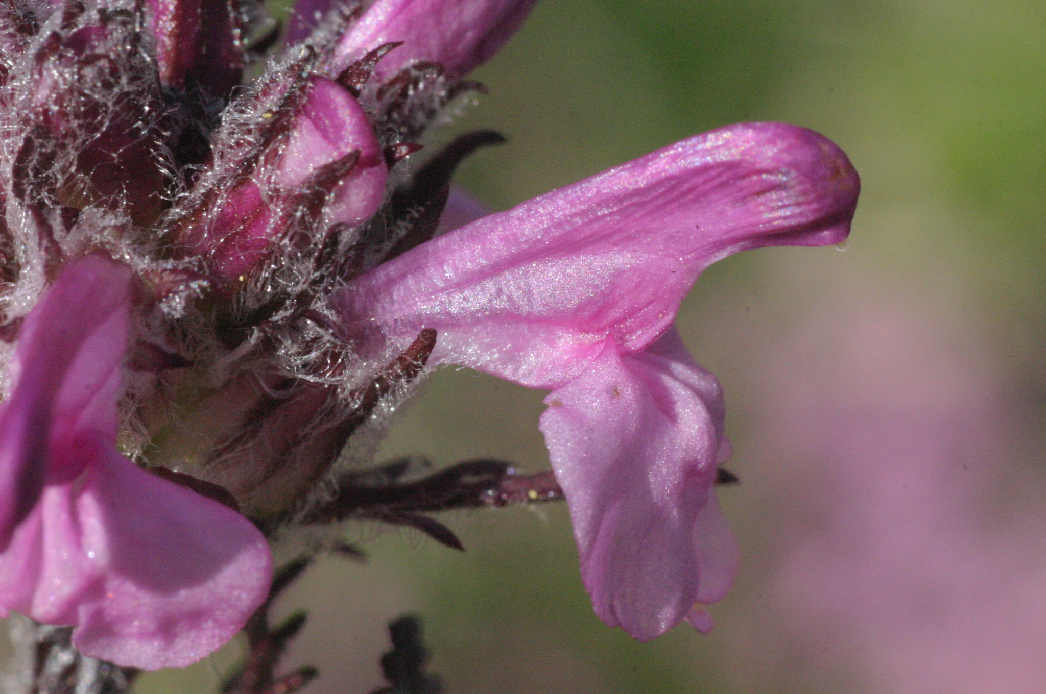 Pedicularis rosea